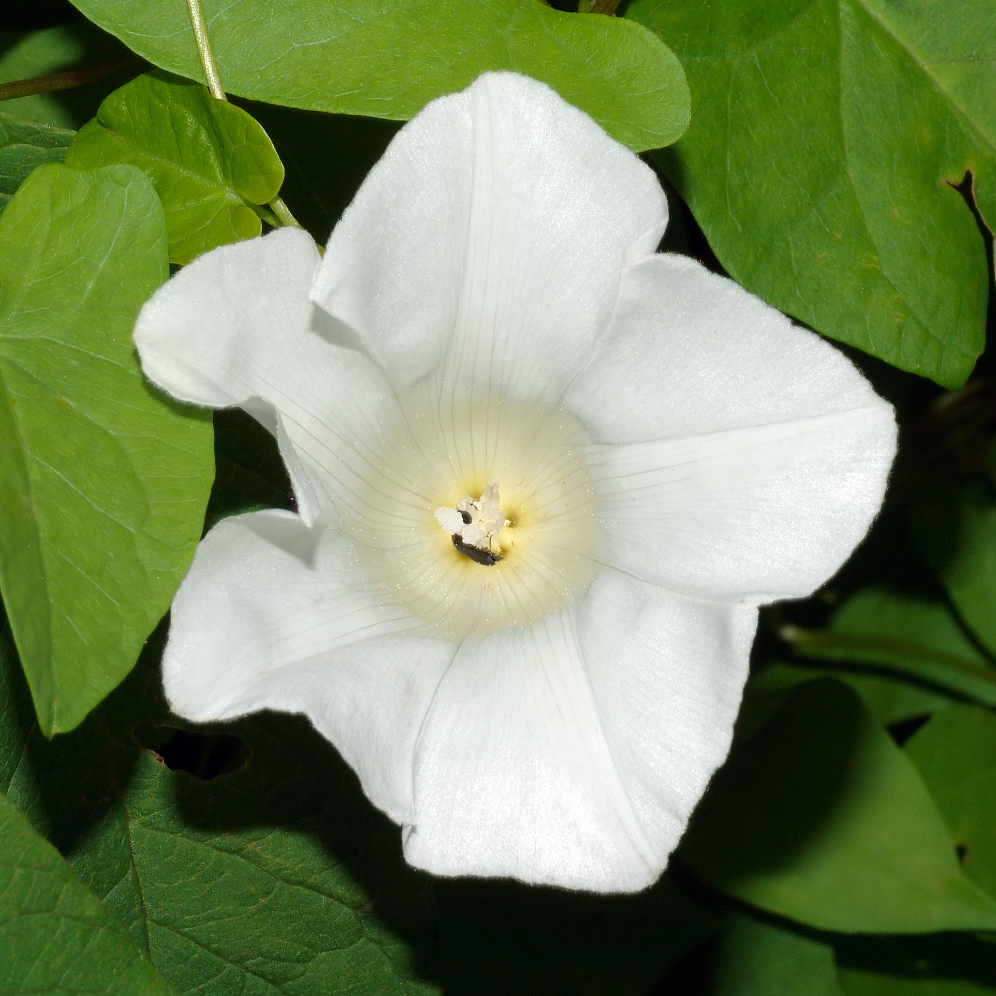 This image shows a Hedge False Bindweed (Calystegia sepium sepium).